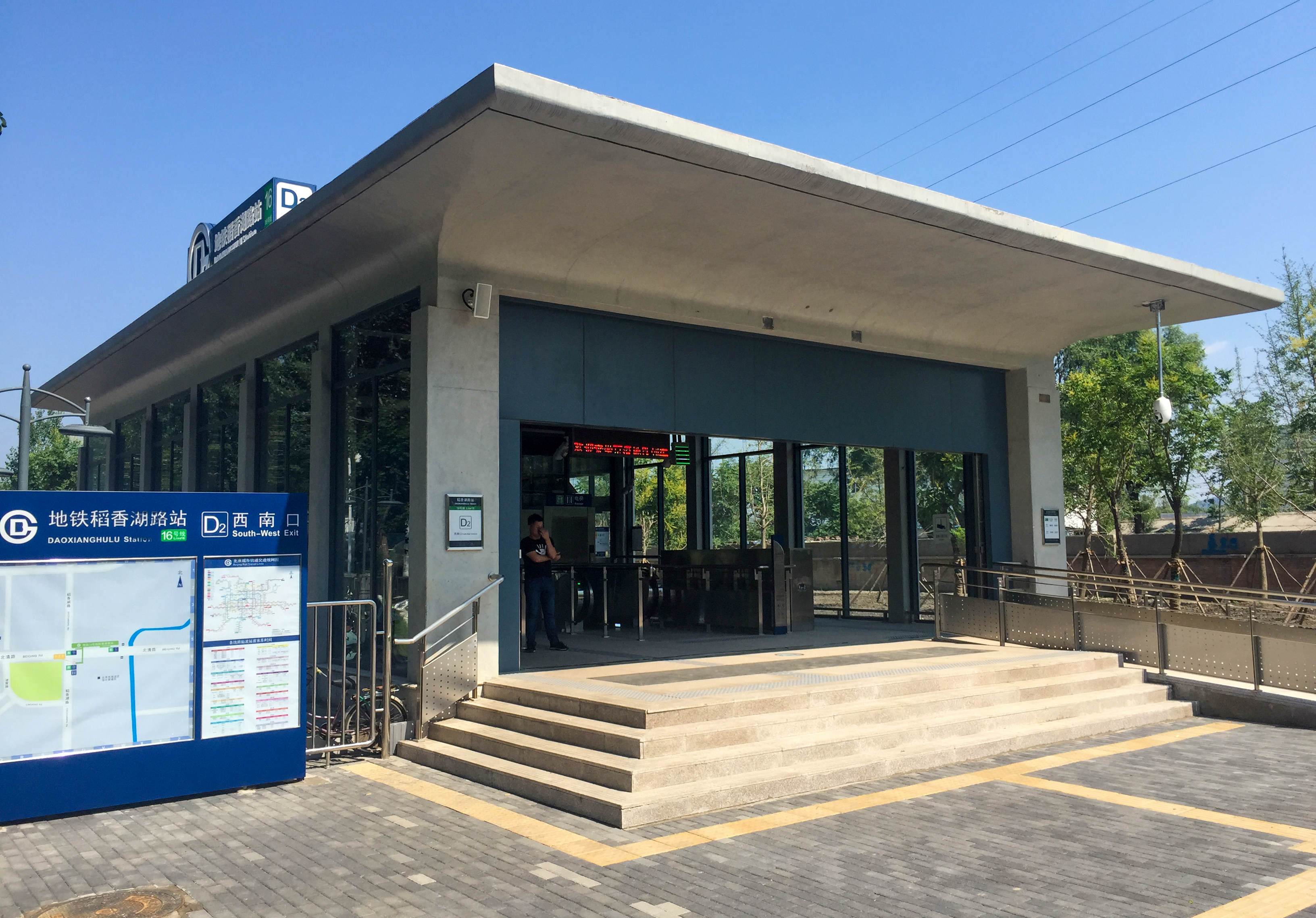 The only one with lift.